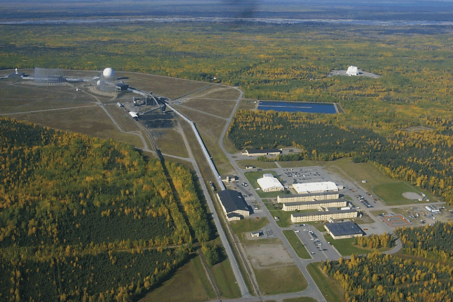 Clear Air Force Station, Alaska, with Phased Array Radar System.